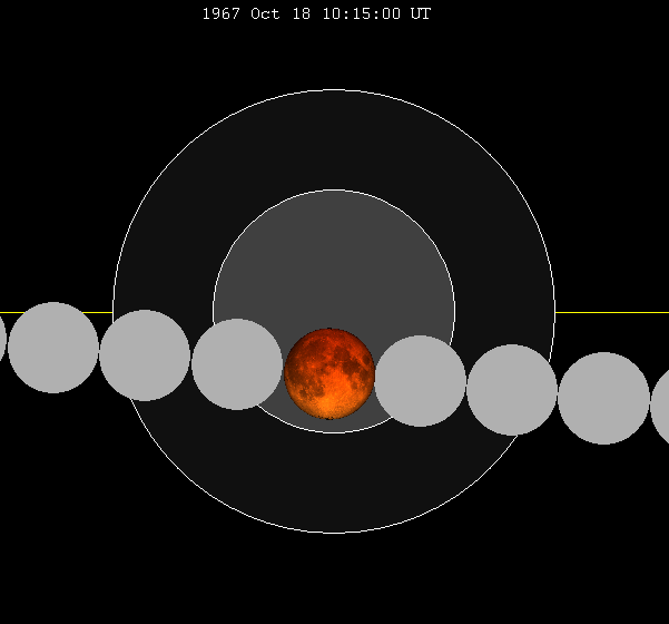 October 1967 lunar eclipse chart of moon's path through the earth's shadow. thumb